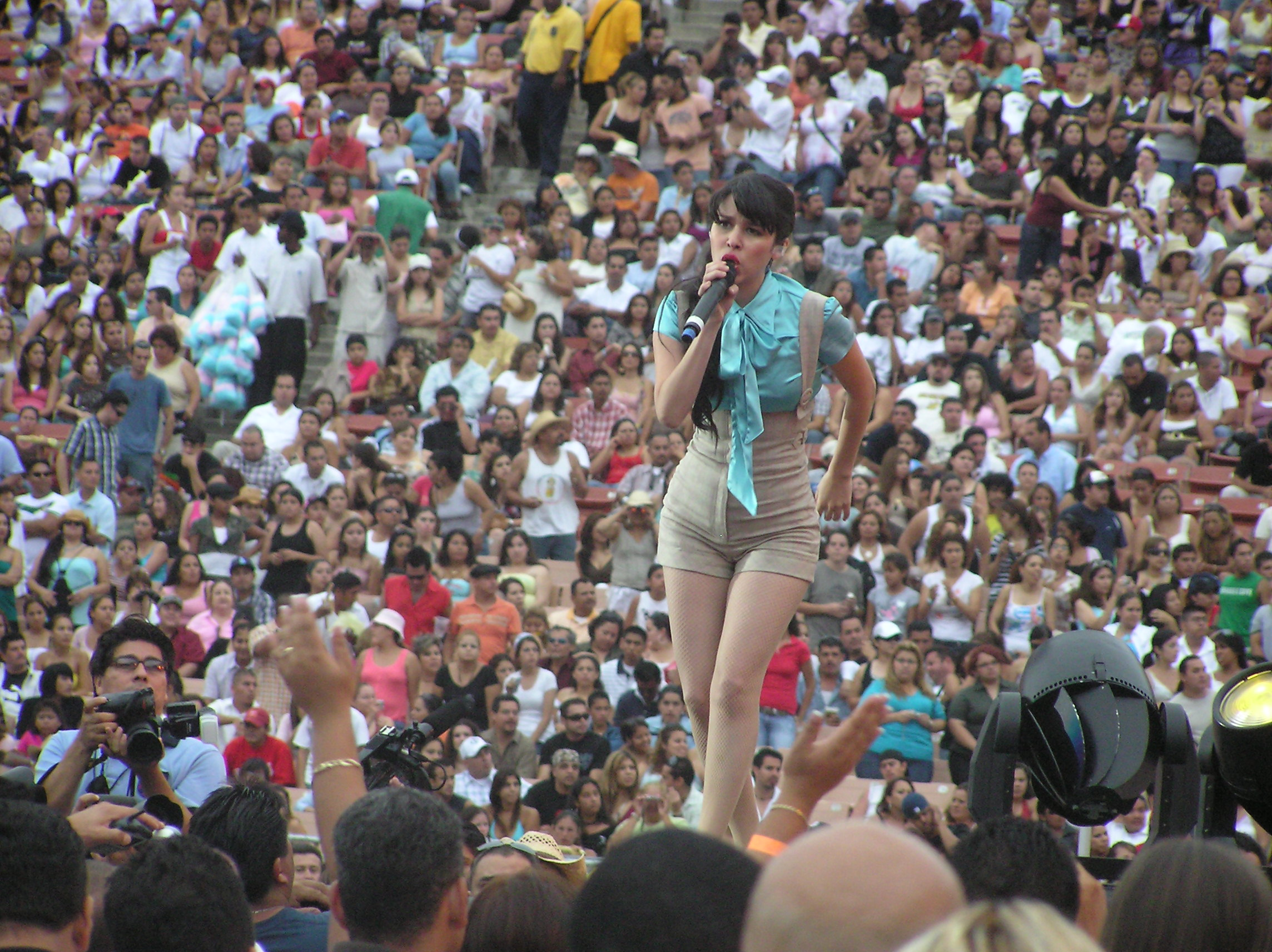 Denisse Guerrero of Belanova, 2006.